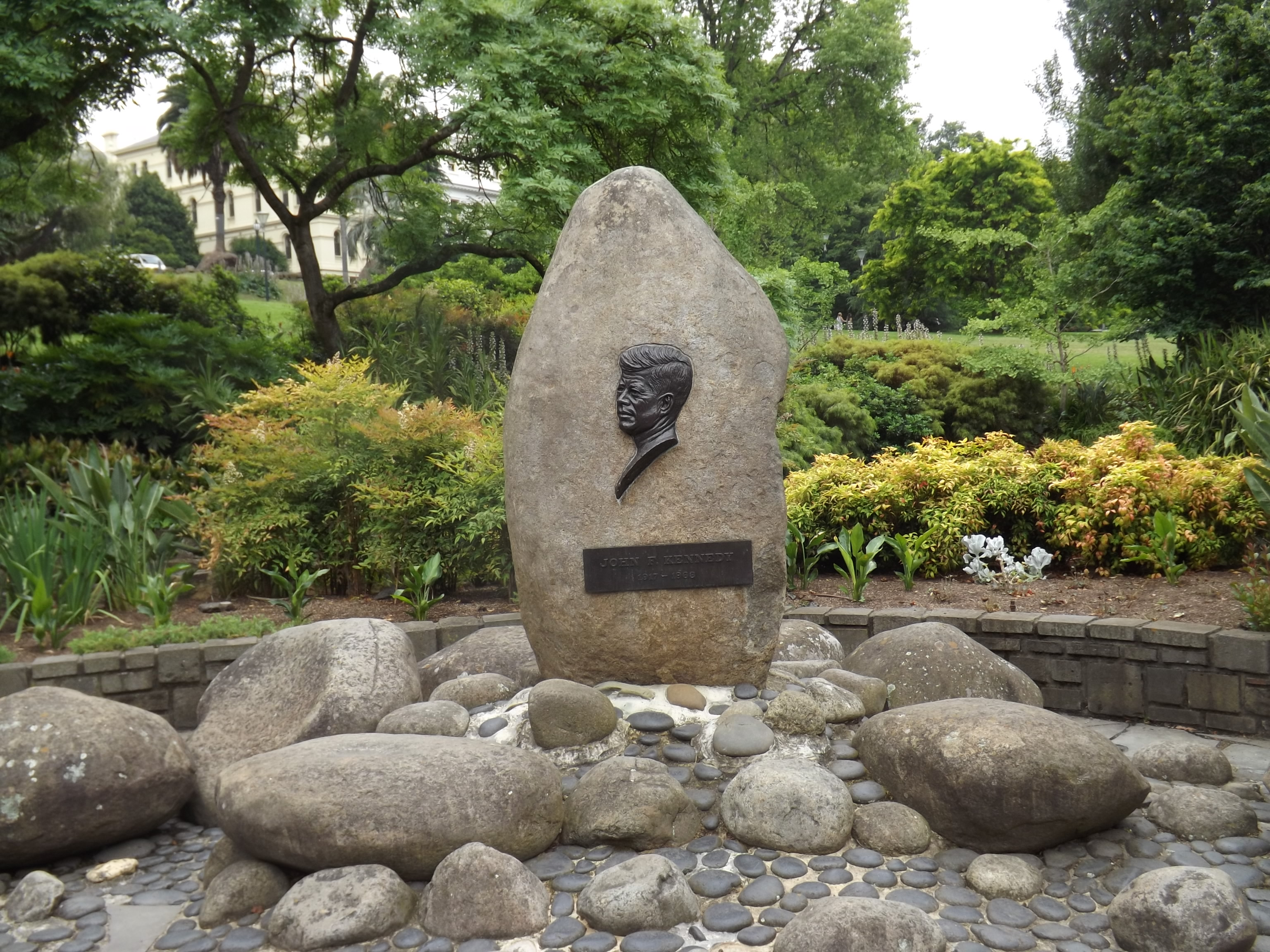 John F. Kennedy Memorial at Treasury Gardens in Melbourne.